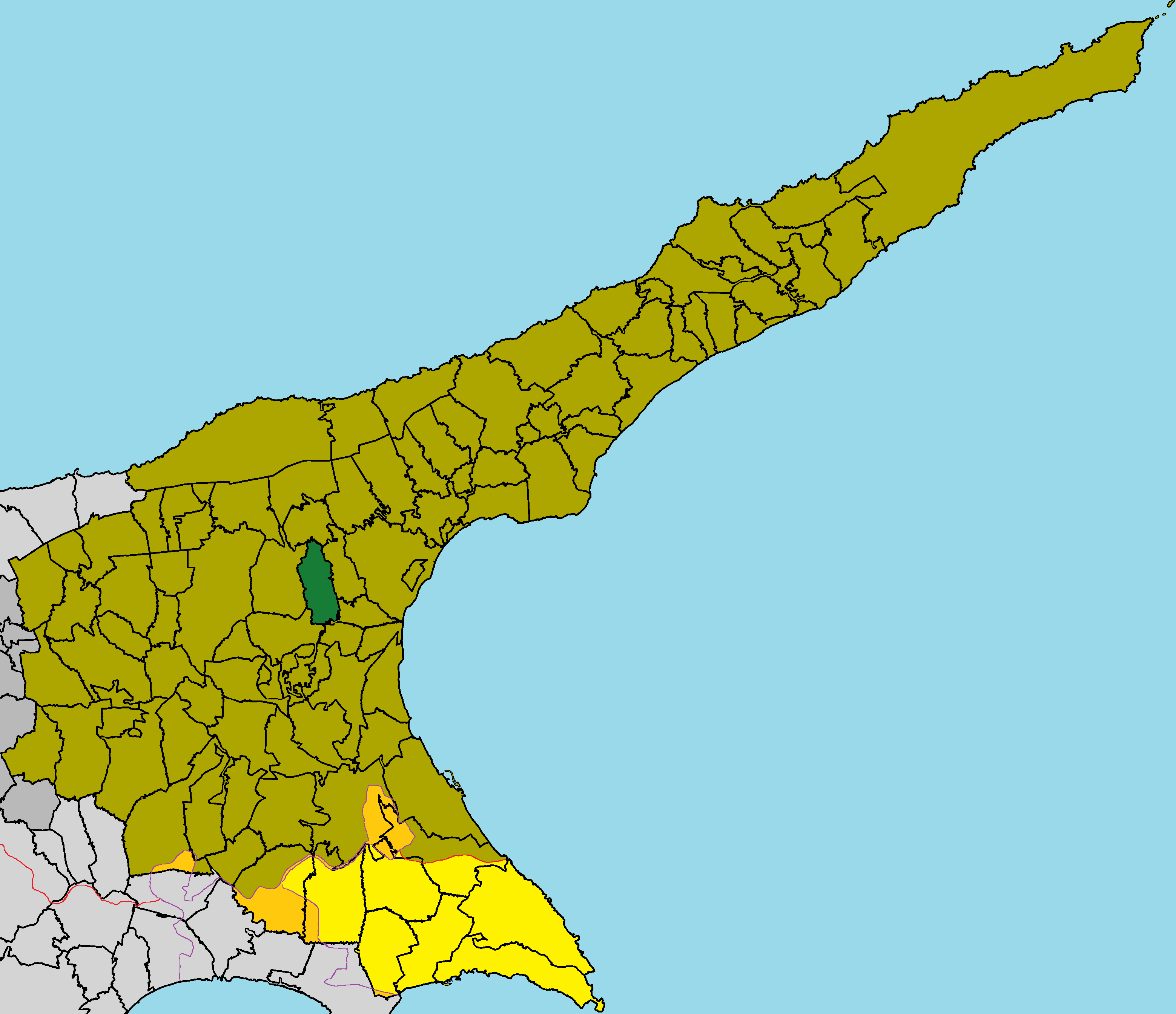 Lapathos in Famagusta District (de jure).